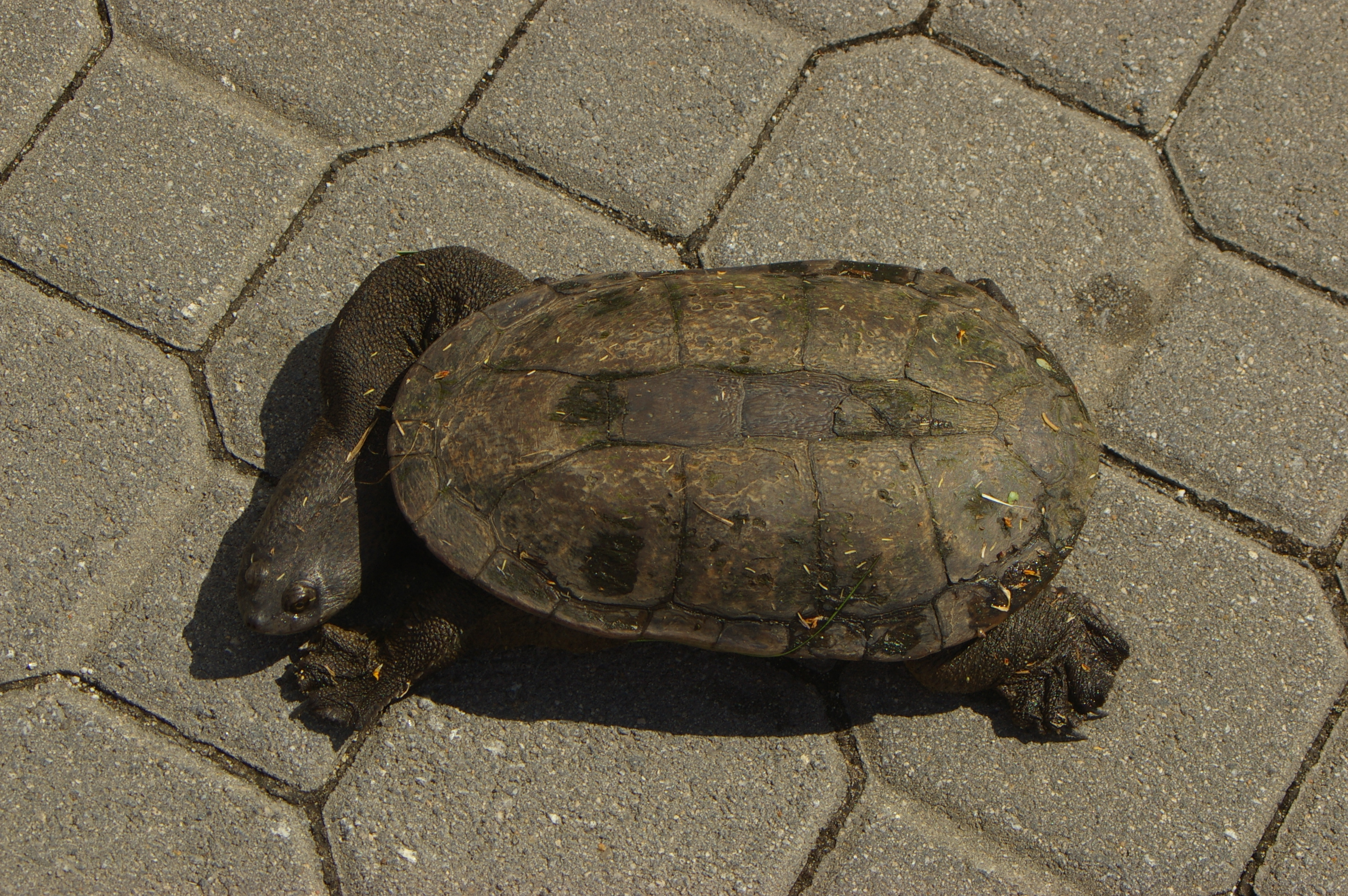 at the time of photographing this was known as Long Neck Tortoise (Macrodiremys oblonga which becameChelodina oblonga) in 2013 C.oblonga was divided into multiple species this one is Southwestern snake-necked turtle Chelodina colliei